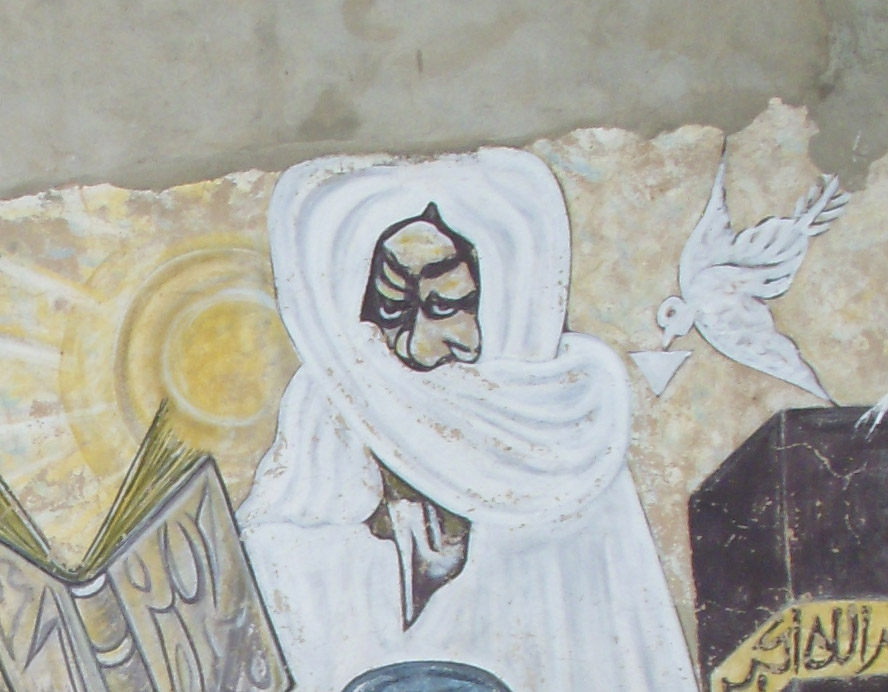 Detail of mural (taken from Image:Mouride Mural DSCN1065.jpg) on a wall in Dakar, Senegal, Cheikh Ahmadou Bamba, leader of the Mouride Sufi sect.DSCN1065